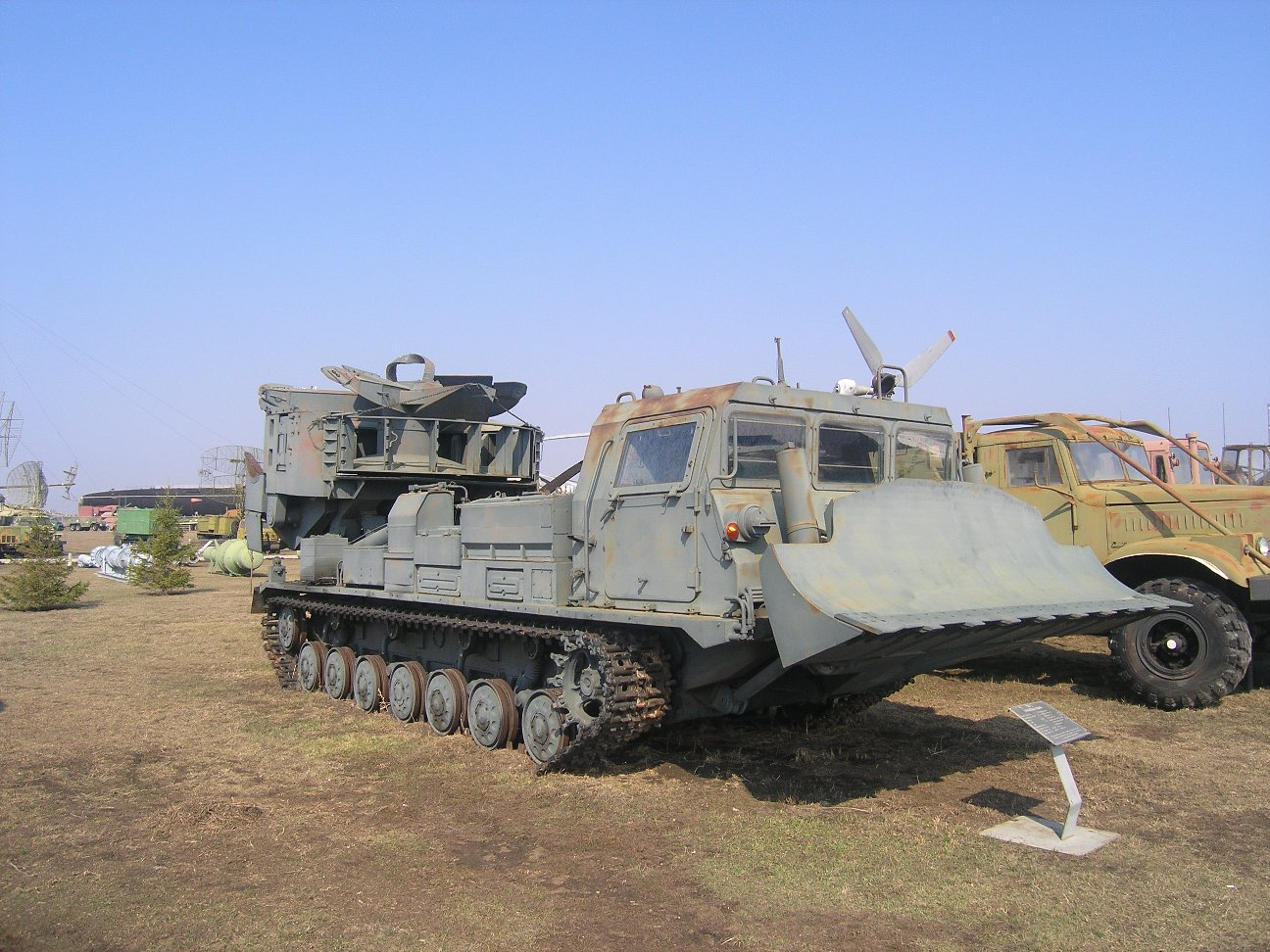 MDK-3 ditching machine at the Togliatti Technical Museum